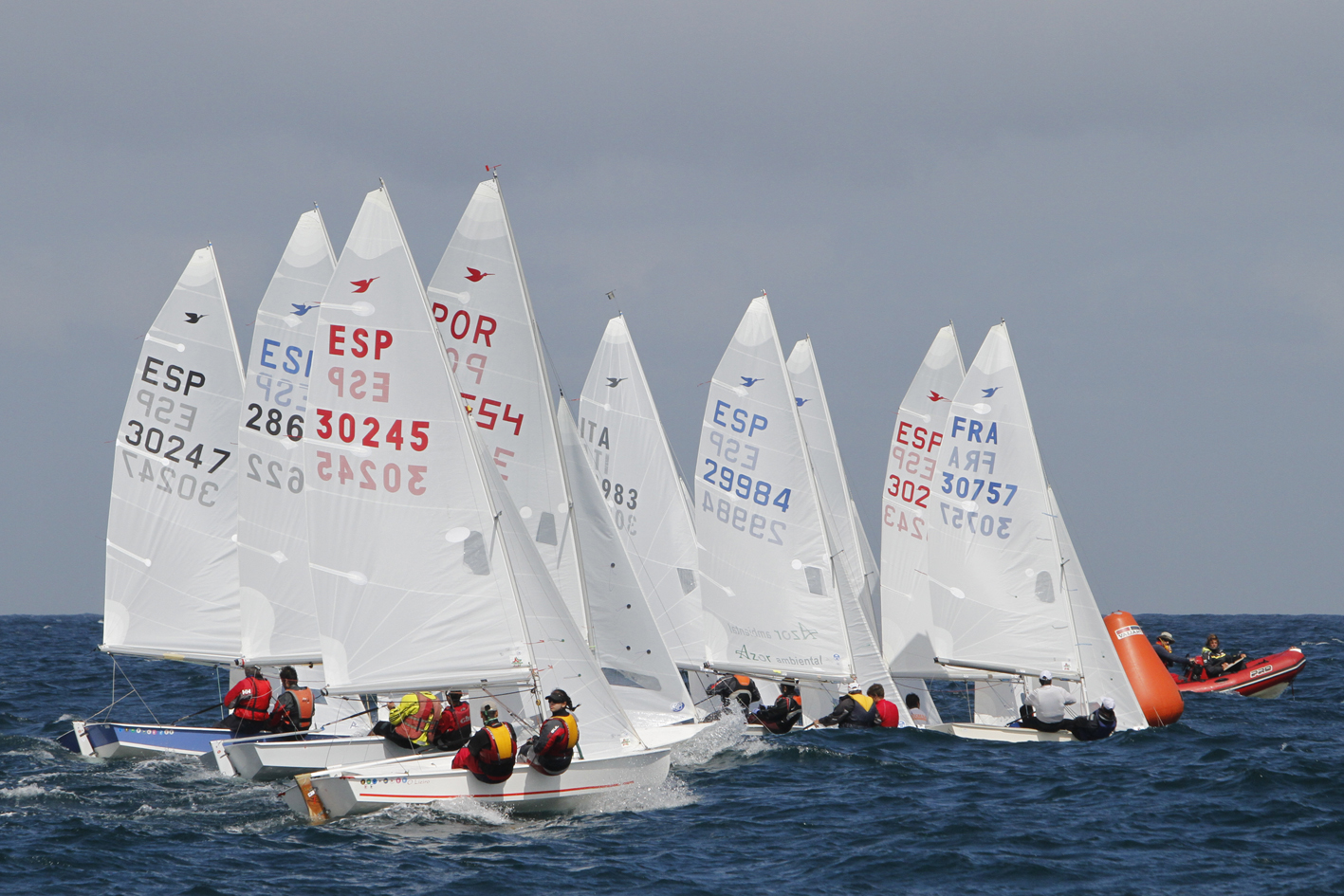 Snipes racing at the 2014 South European Championship